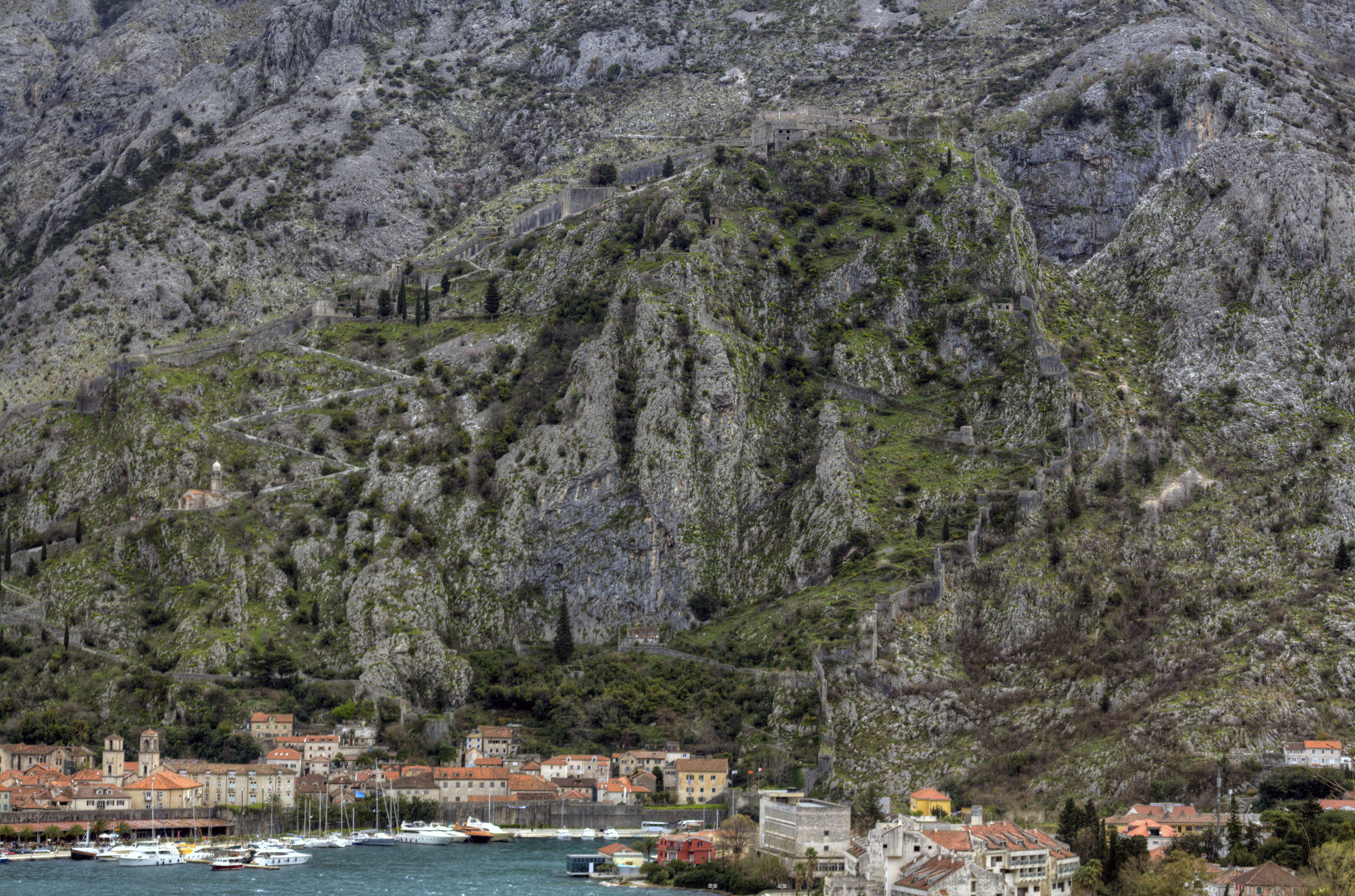 View of Fort of St John, Kotor, from Muo